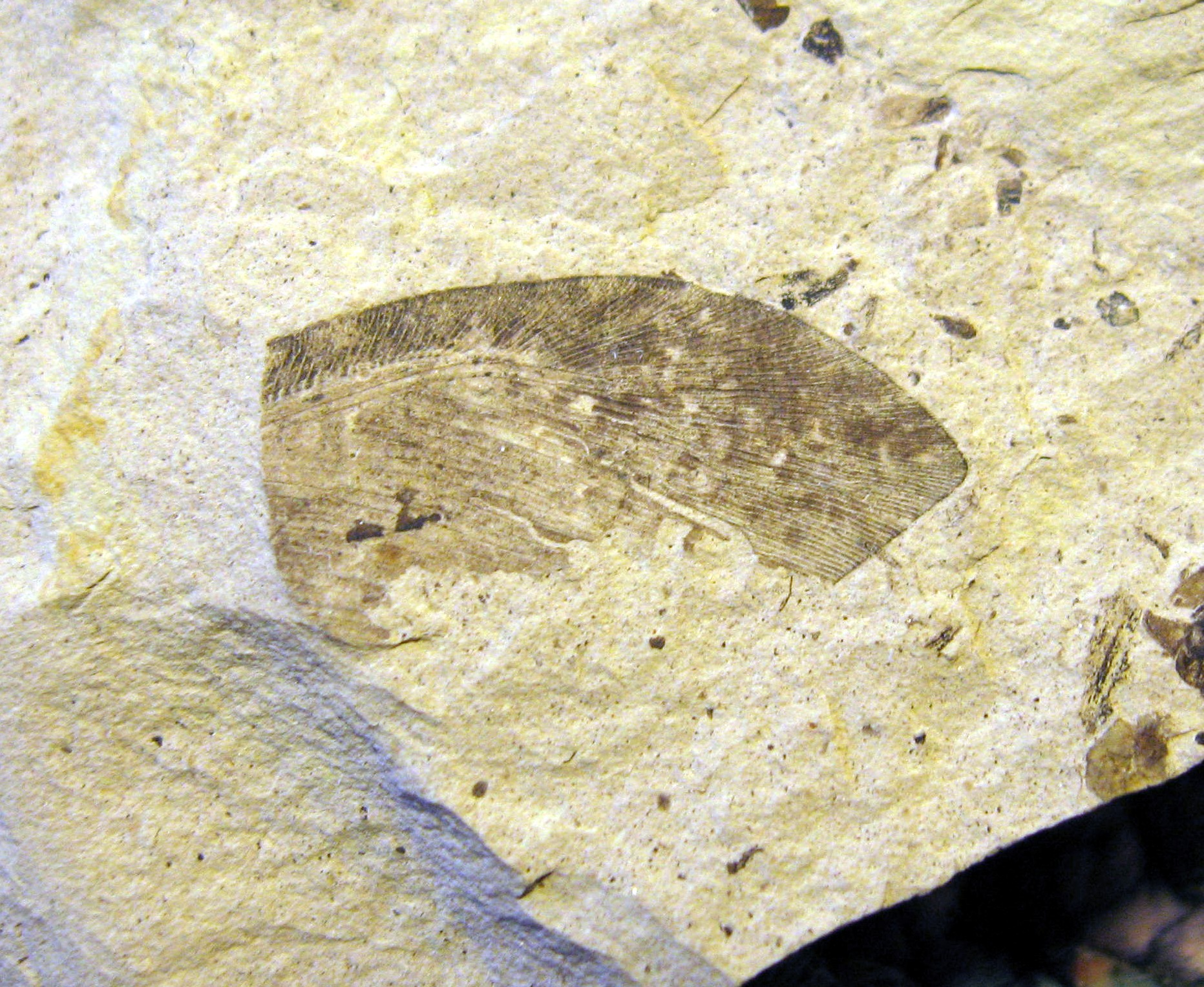 Polystoechotites falcatus Holotype. A 1.9cm wing section. Klondike Mountain Formation, Republic, Ferry County, Washington, USA, Eocene, Ypresian, 49million years old. Stonerose Interpretive Center Collection # SR 94-05-21